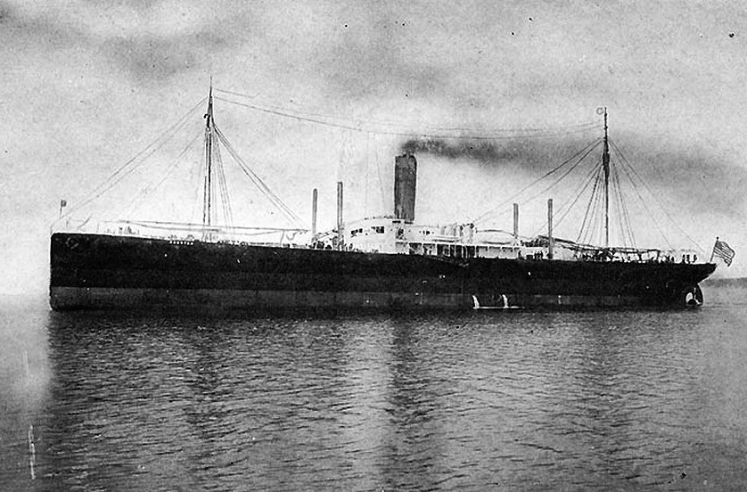 NH 104742 Halftone reproduction of a photograph taken prior to World War I. This ship served as USS Dakotan (ID # 3882) in 1919. This image was published in 1919 as one of ten photographs in a "Souvenir Folder" of views concerning USS Dakotan.